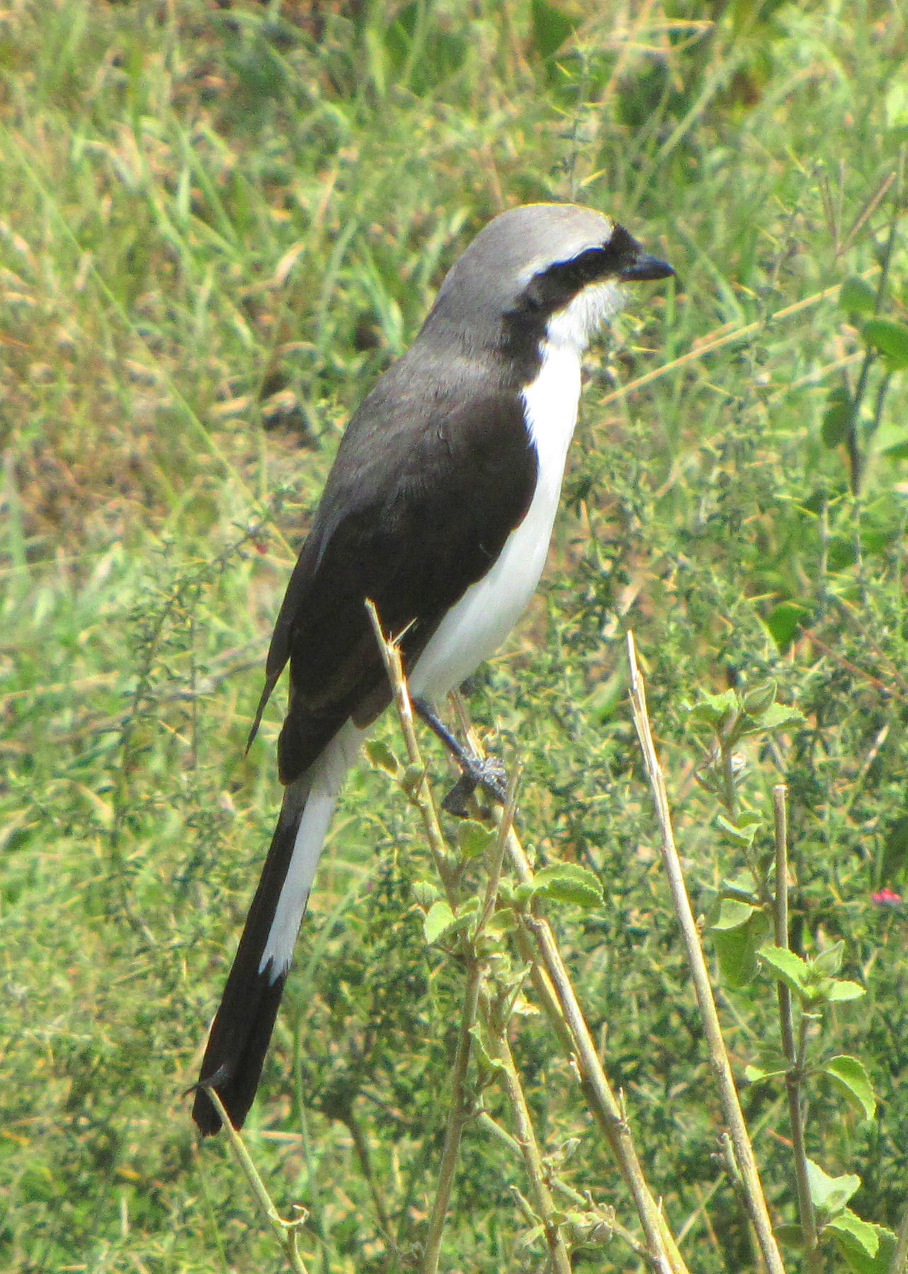 Grey-backed Fiscal (Lanius excubitoroides), Serengeti NP, Tanzania